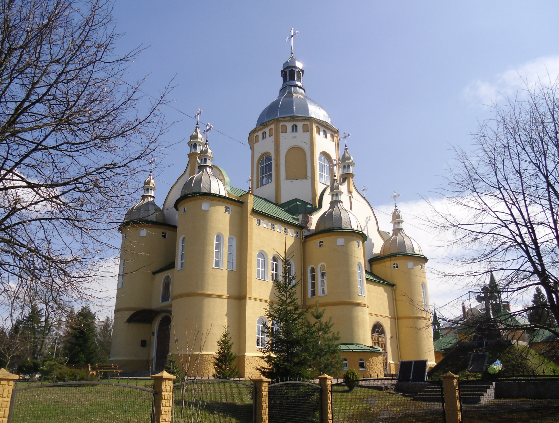 St. Nicholas Greek Orthodox Church (2000). Urban-type settlement Velykyi Liubin, Lviv Oblast.